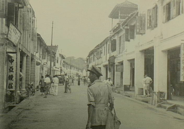 Kuching, Sarawak. 12 September 1945. Street scene in Kuching soon after occupation by the Allied Forces. Official War Artist, Tony Rafty, seen here in the foreground.